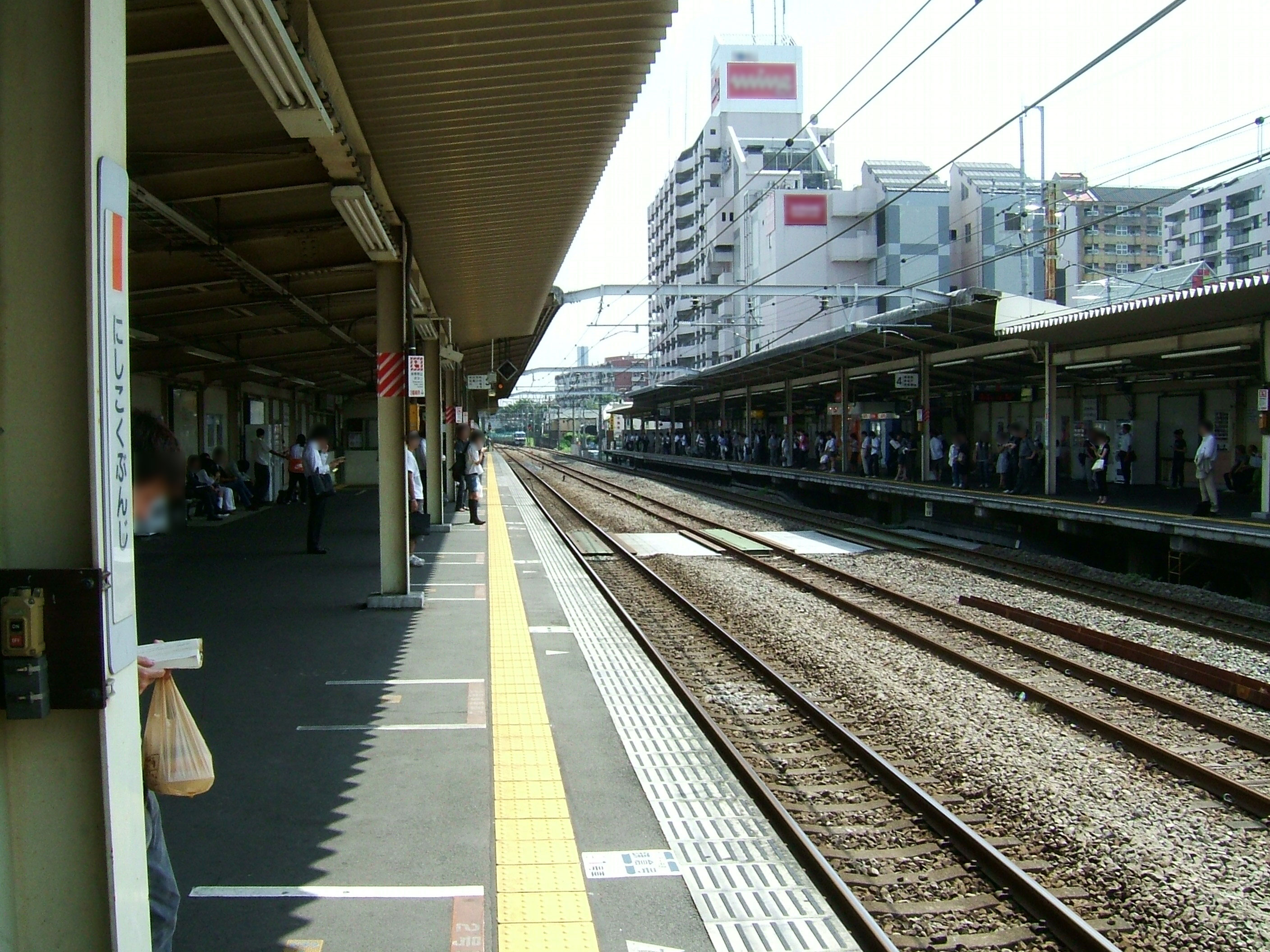 Nishi-Kokubunji Station platform (East Japan Railway Musashino Line)